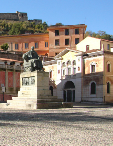 cropped version of File:Piazza XV marzo.jpg, showing the Accademia Cosentina and the statue of Bernardo Telesio